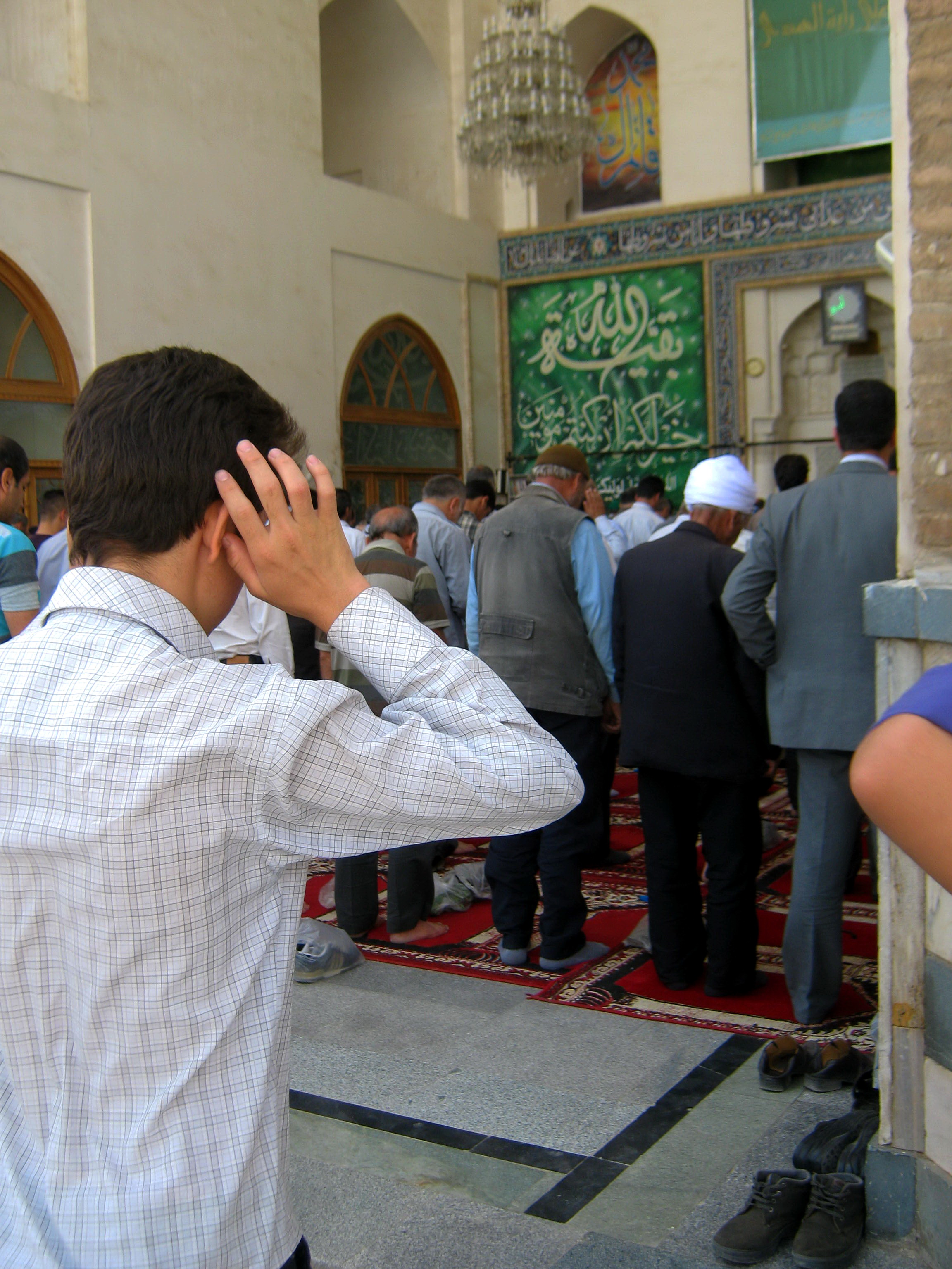 Prayers of Noon - Grand Mosque of Nishapur -September 27 2013